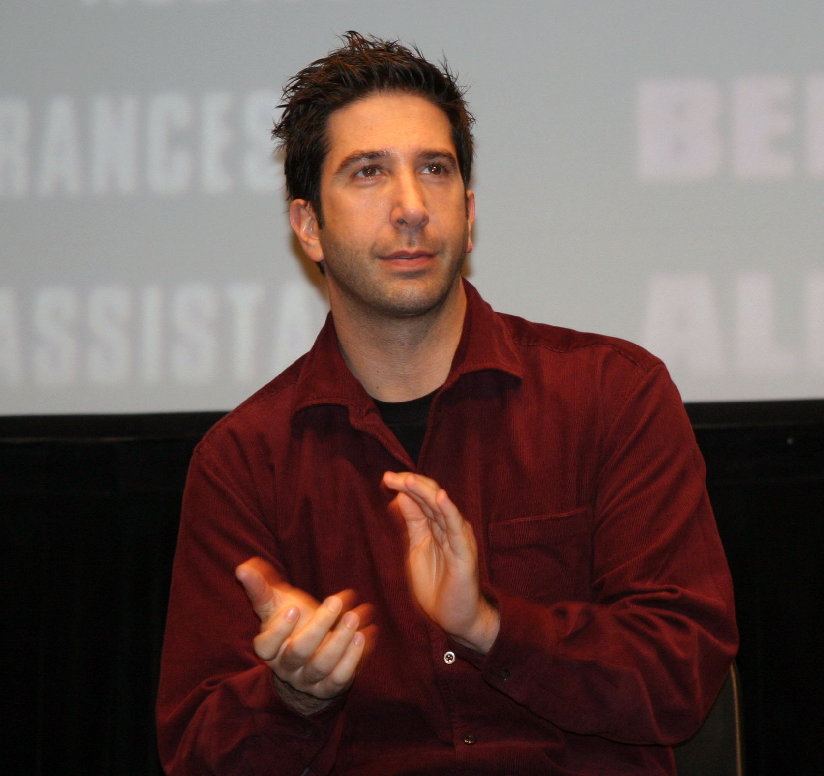 David Schwimmer at the premiere of Run, Fat Boy, Run, at the Walter Reade Theater in New York City. This was during the post-screening Q & A.David Schwimmer